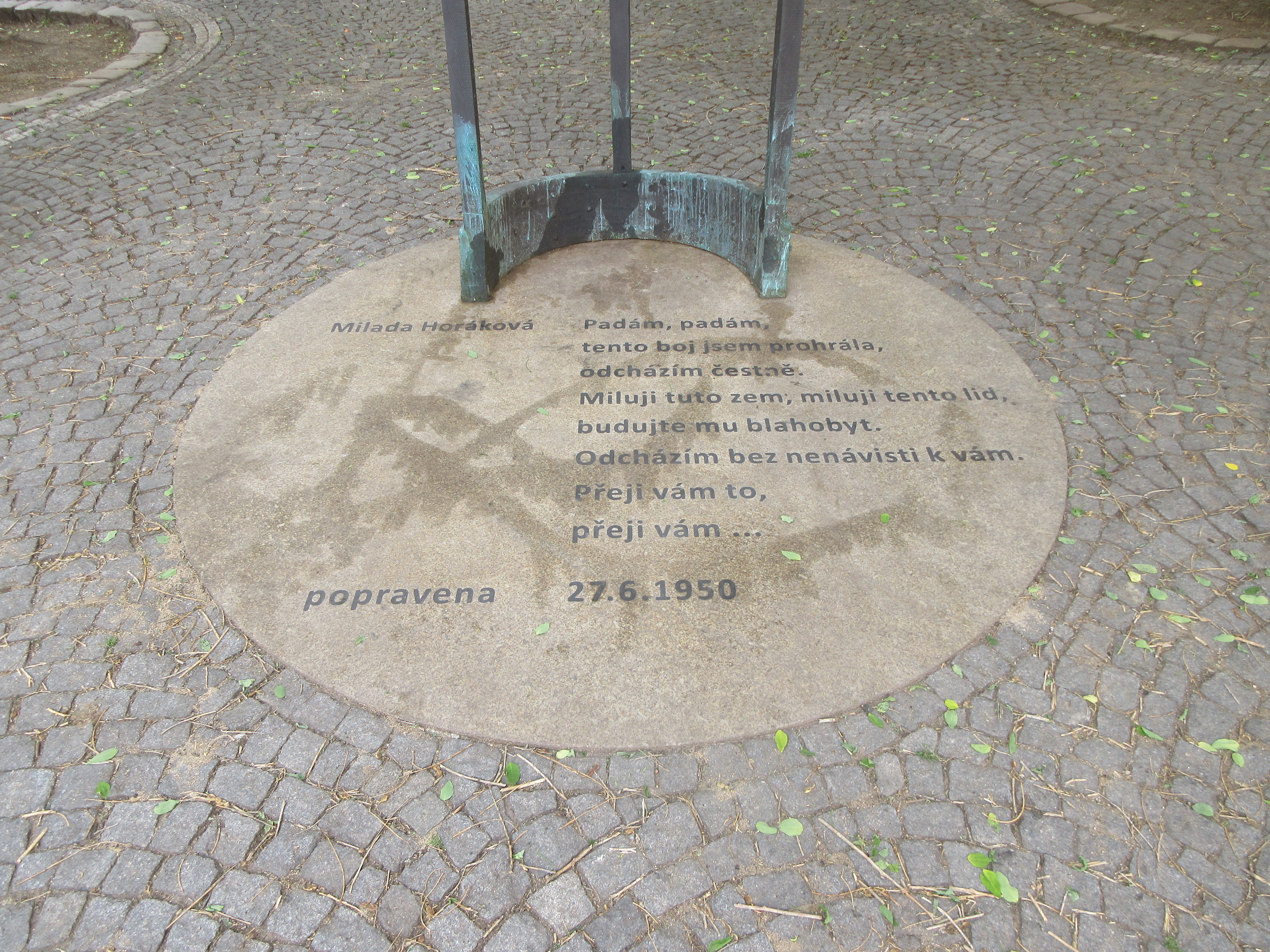 Milada Horáková memorial in Sněmovní, Prague, view of plaque with Milada Horáková's last say